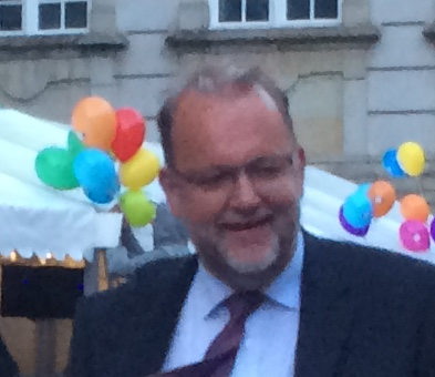 Electionsday for Folketinget in Denmark 18/6 2015. Troels Lund Poulsen and behind Lars Christian Lilleholt